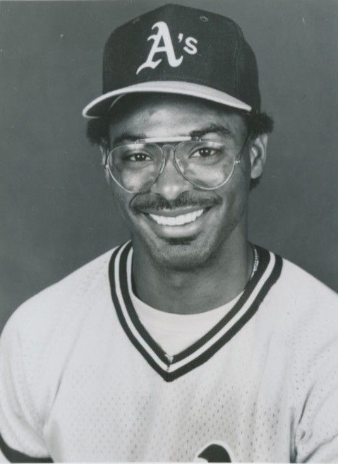 Mike Davis in 1986